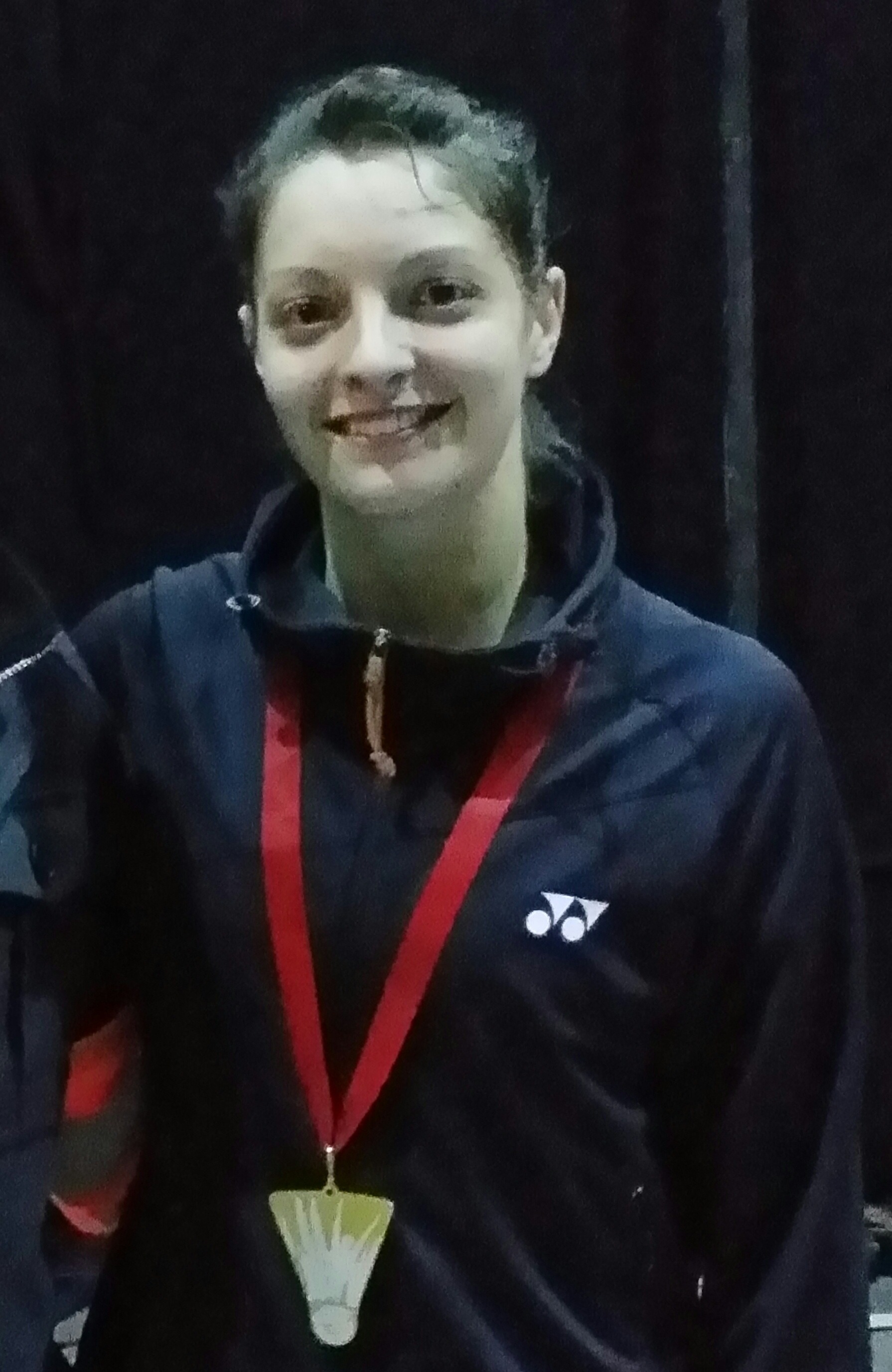 Photo of Sarah